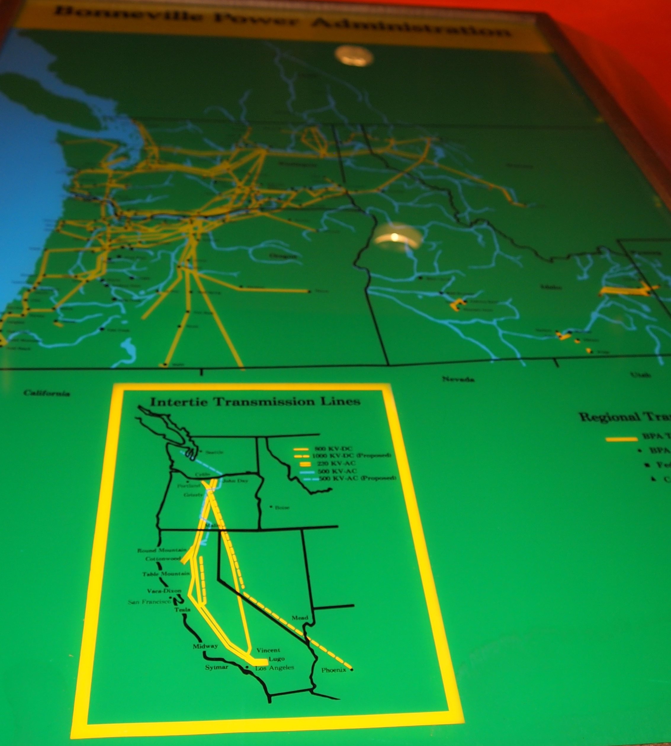 US Army Corps of Engineers map of BPA transmission lines